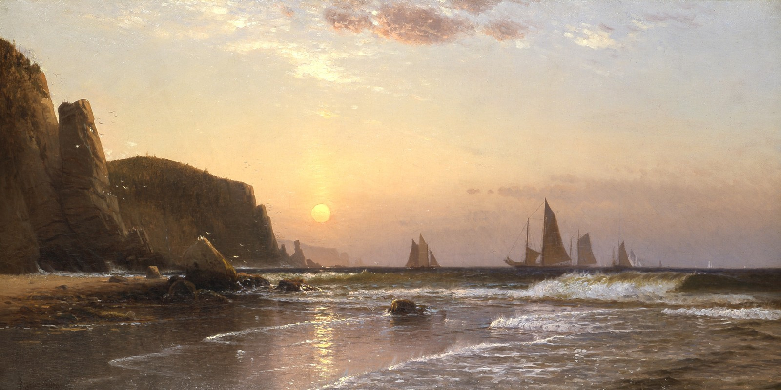 Oil painting by Alfred Thompson Bricher of North Atlantic coast from 1878